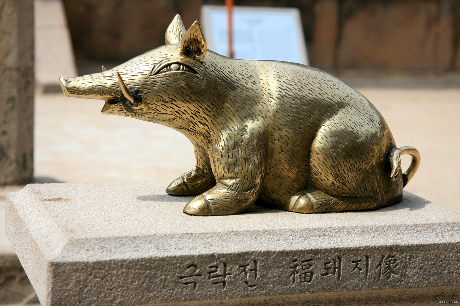 A view of Gyeongju, North Gyeongsang province, South Korea